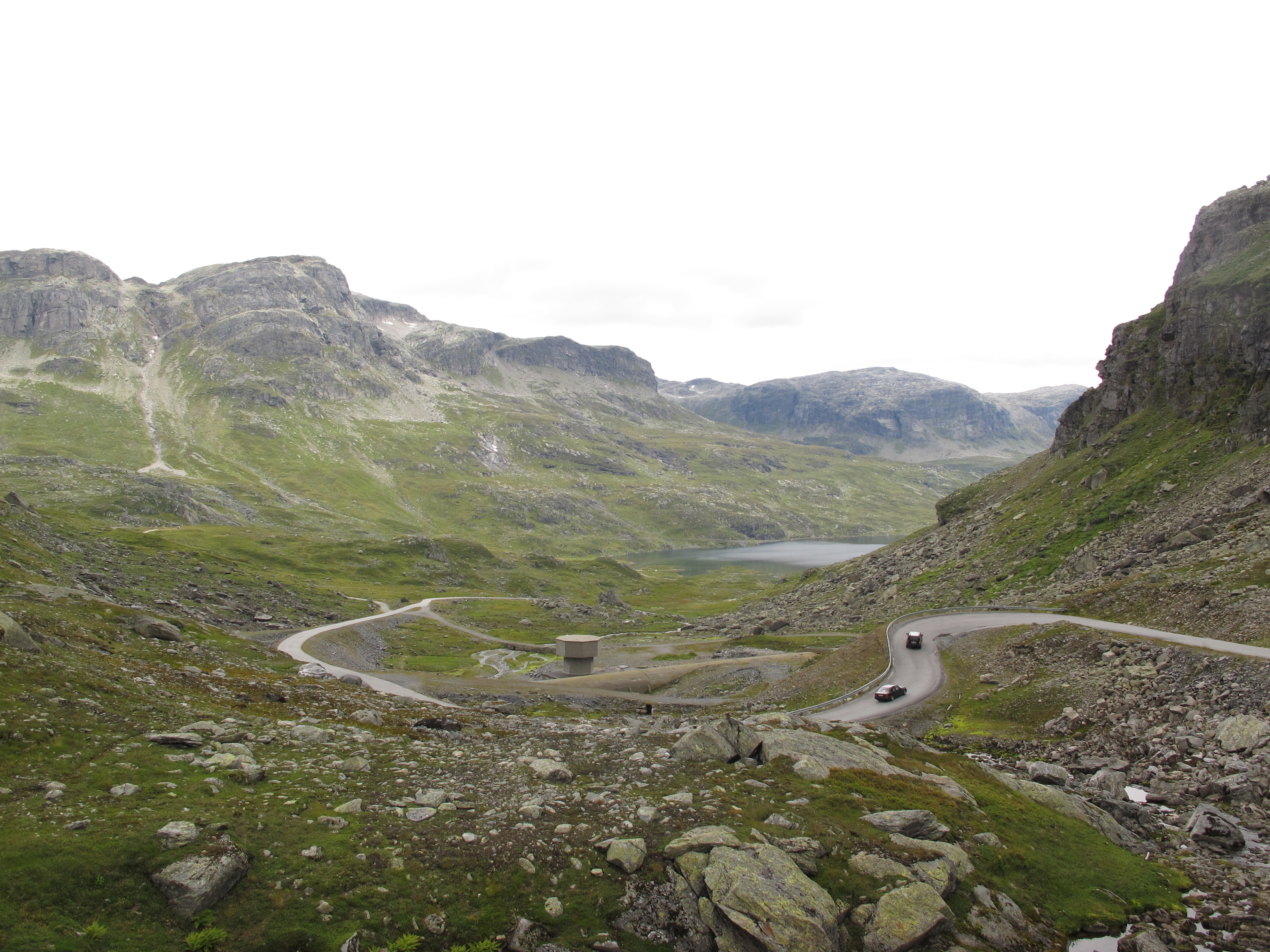 From the "Dyrskar" pass on the Haukeli mountain plateau in Norway. View looking east from the oldest road, showin a newer road snaking up the mountain, while the concrete structure in the middle is todays E134 road going in a tunnel under the area.